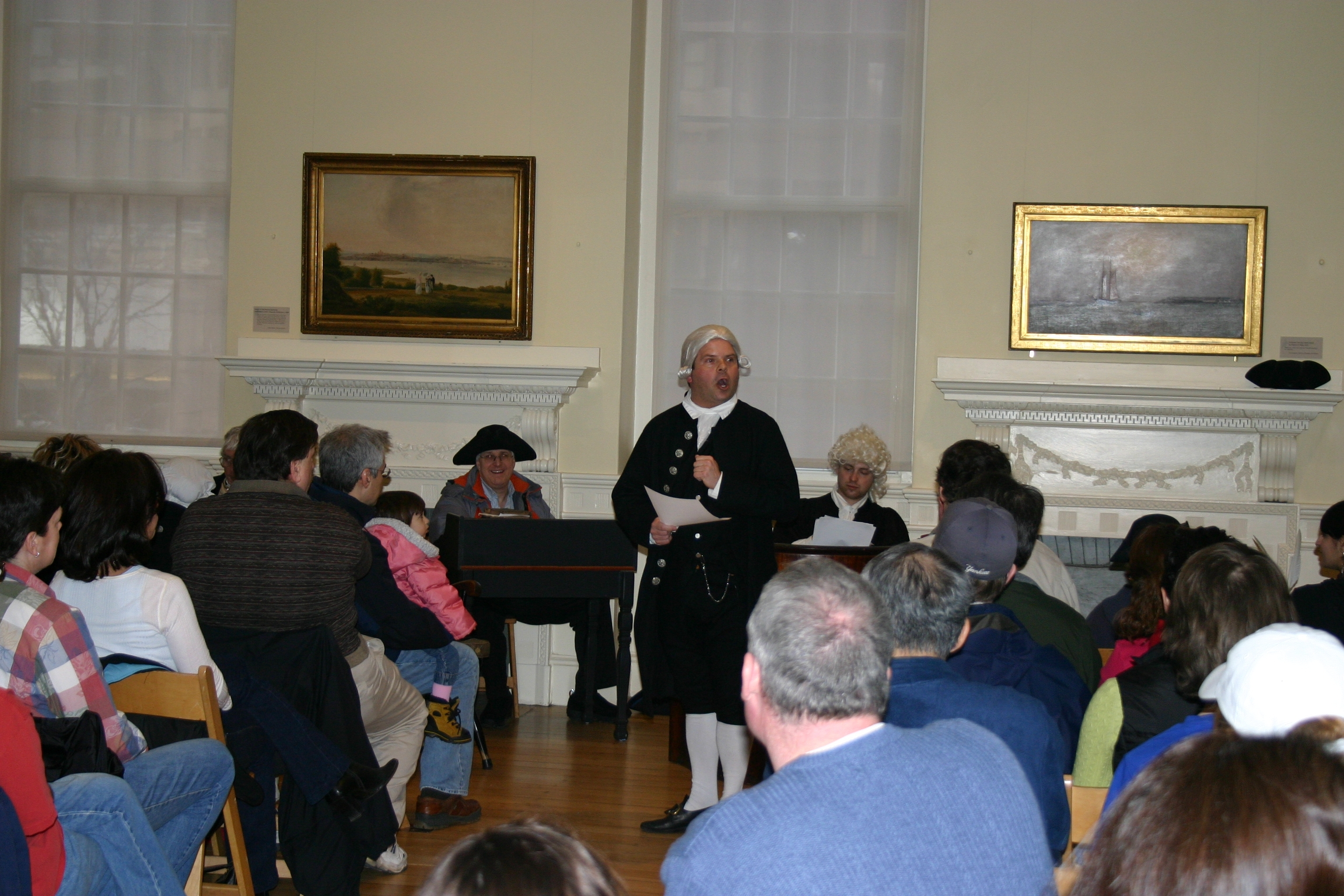 Samuel Quincy pleads his case before the court